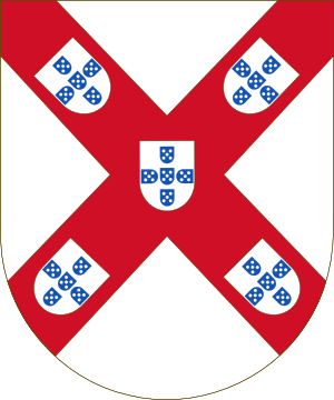 Shield of the House of Braganza